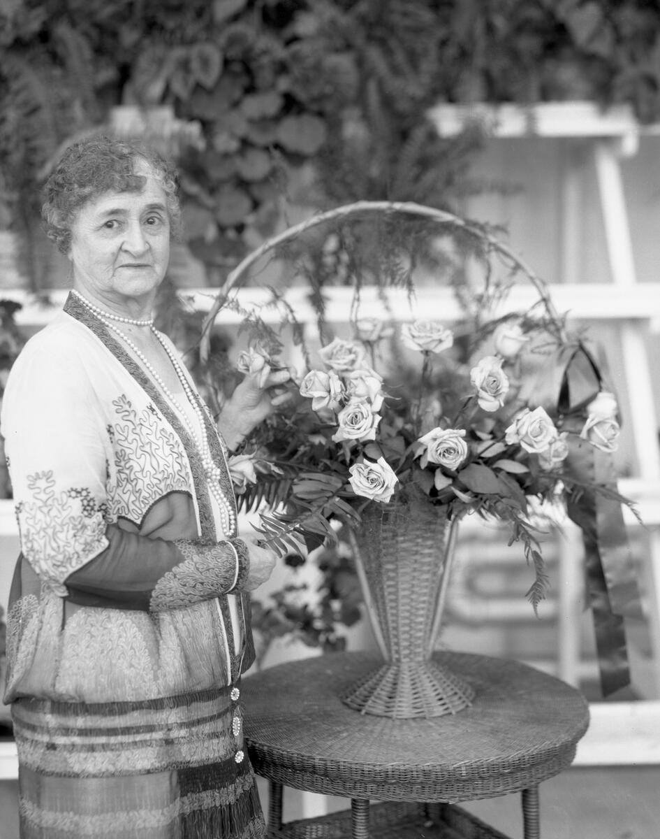 Mrs. Egbert with flower bouquet, Edmonton, Alberta.